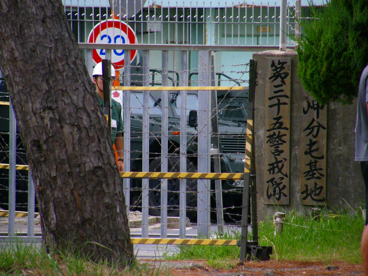 JASDF Kyougamisaki Sub Base